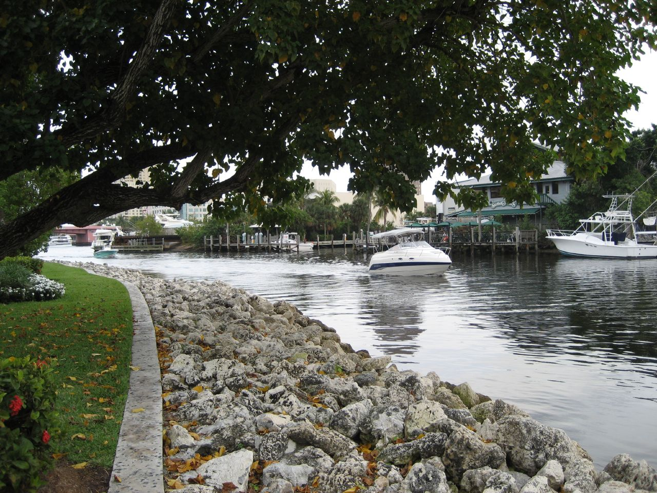 New River (Broward County, Florida), as seen from Fort Lauderdale's Riverwalk.